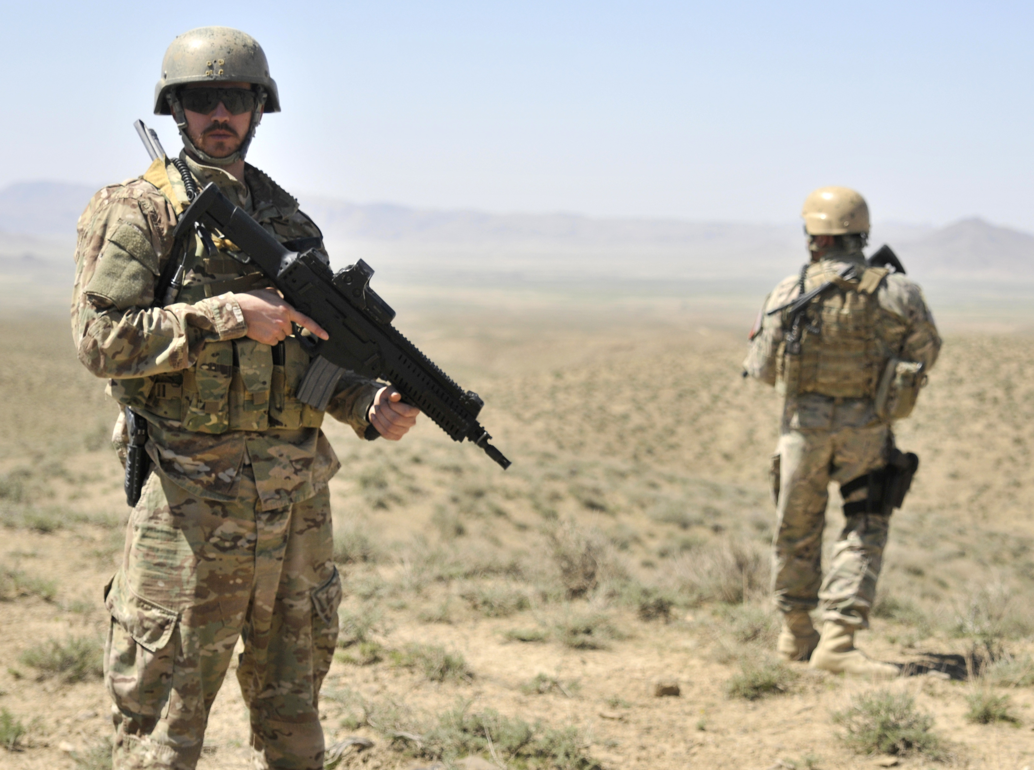 Albanian special operations forces, provide security as Afghan Border Police (ABP) break ground on a new checkpoint in the district of Spin Boldak, Kandahar province, Afghanistan, March 25, 2013. The ABP moved to the new location to block an insurgent infiltration route.